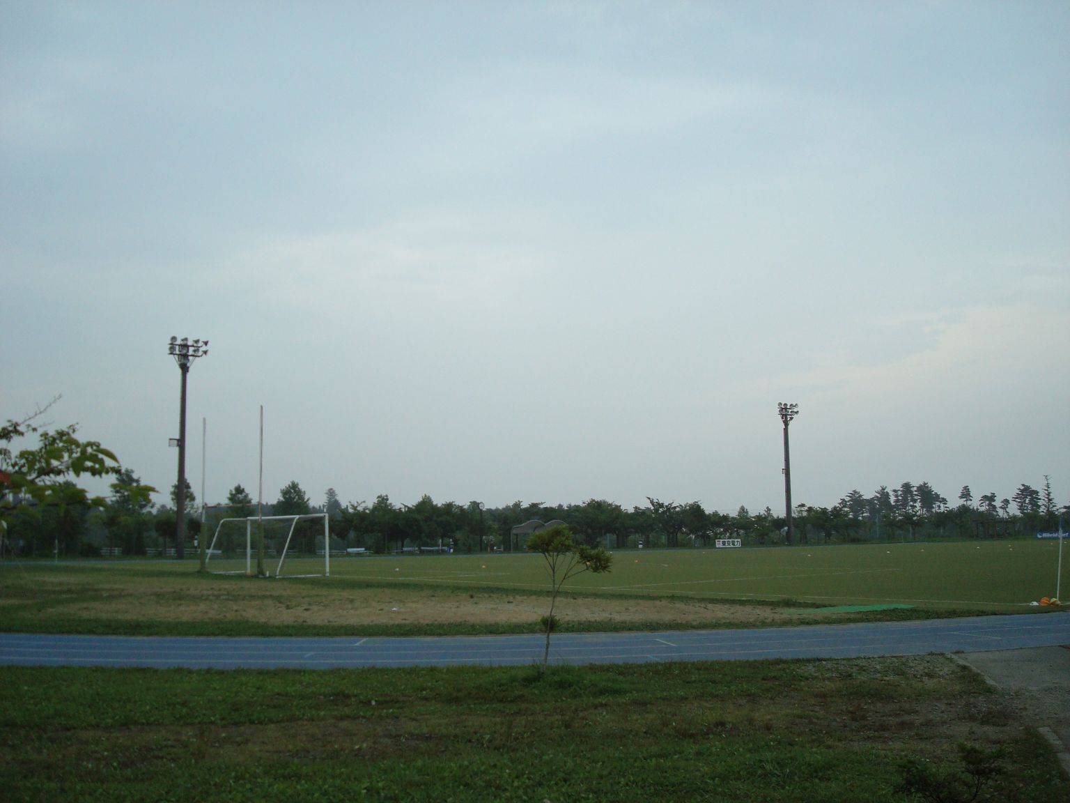 Training track and field in J-Village national training center of Japan at Naraha, Fukushima, Japan.